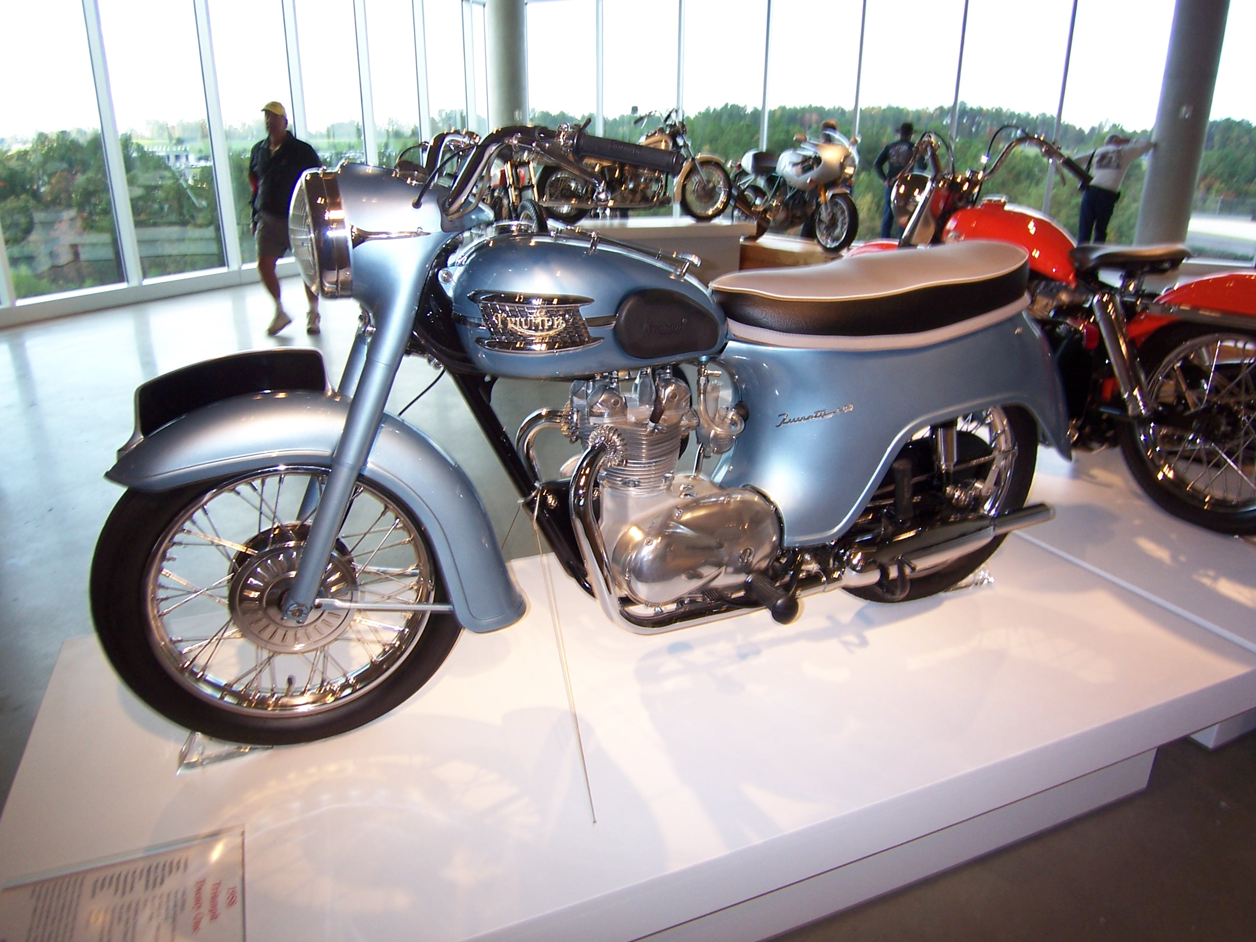 Barber Motorcycle Museum - Oct 22 2006 (647) 1958 Triumph Twenty One / More description is here